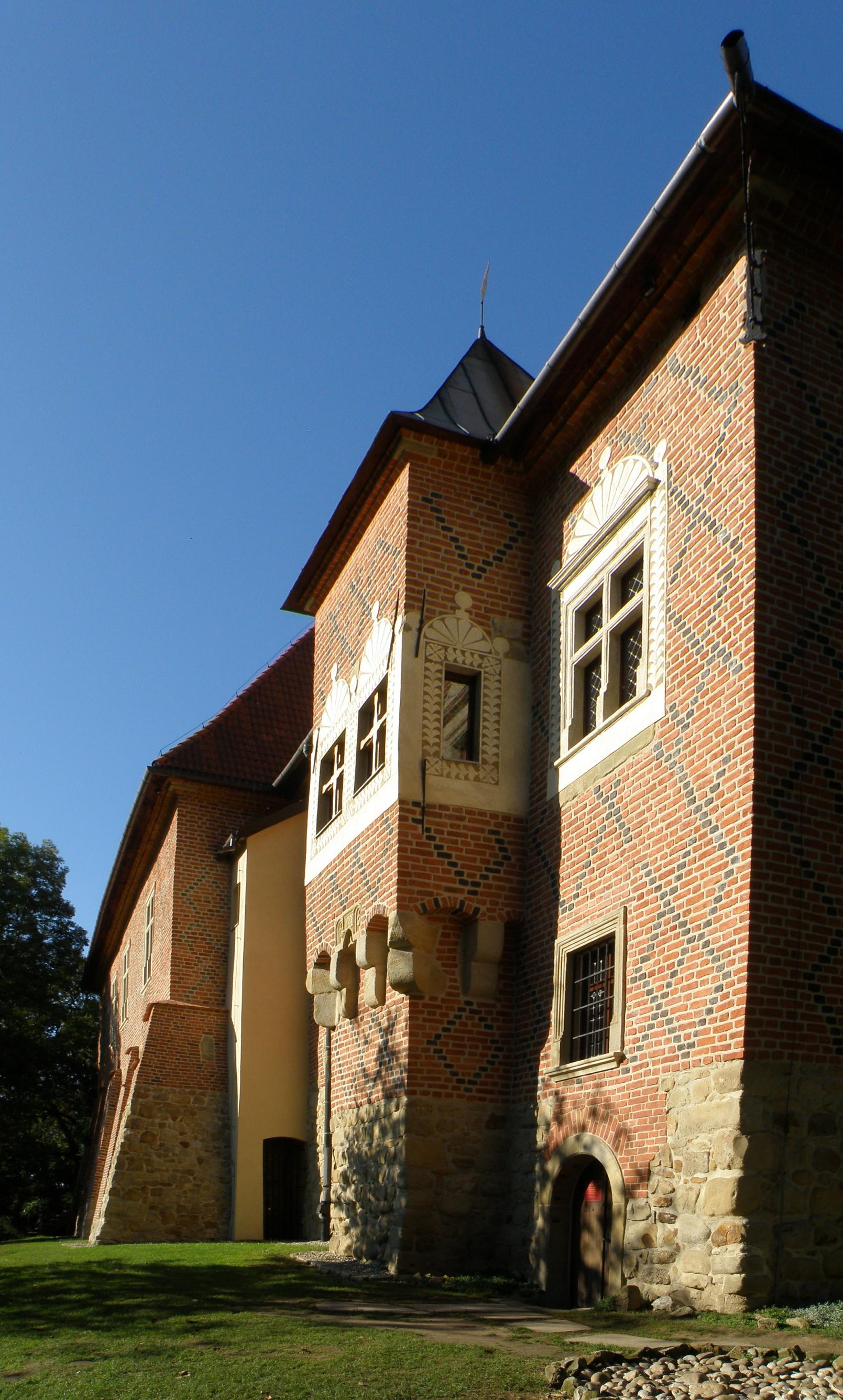 The castle in Debno, Poland.